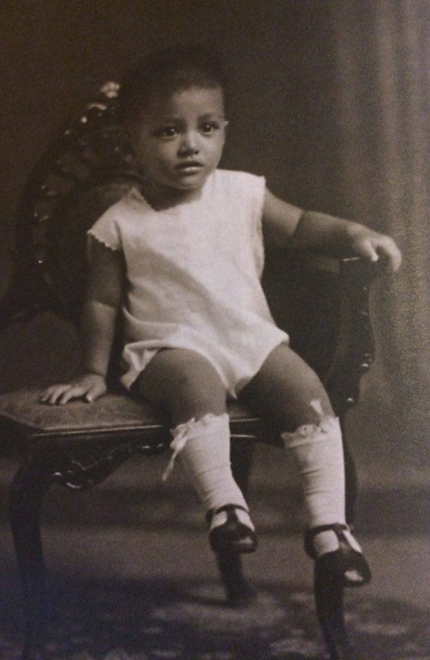 first formal photo at manila photo studio